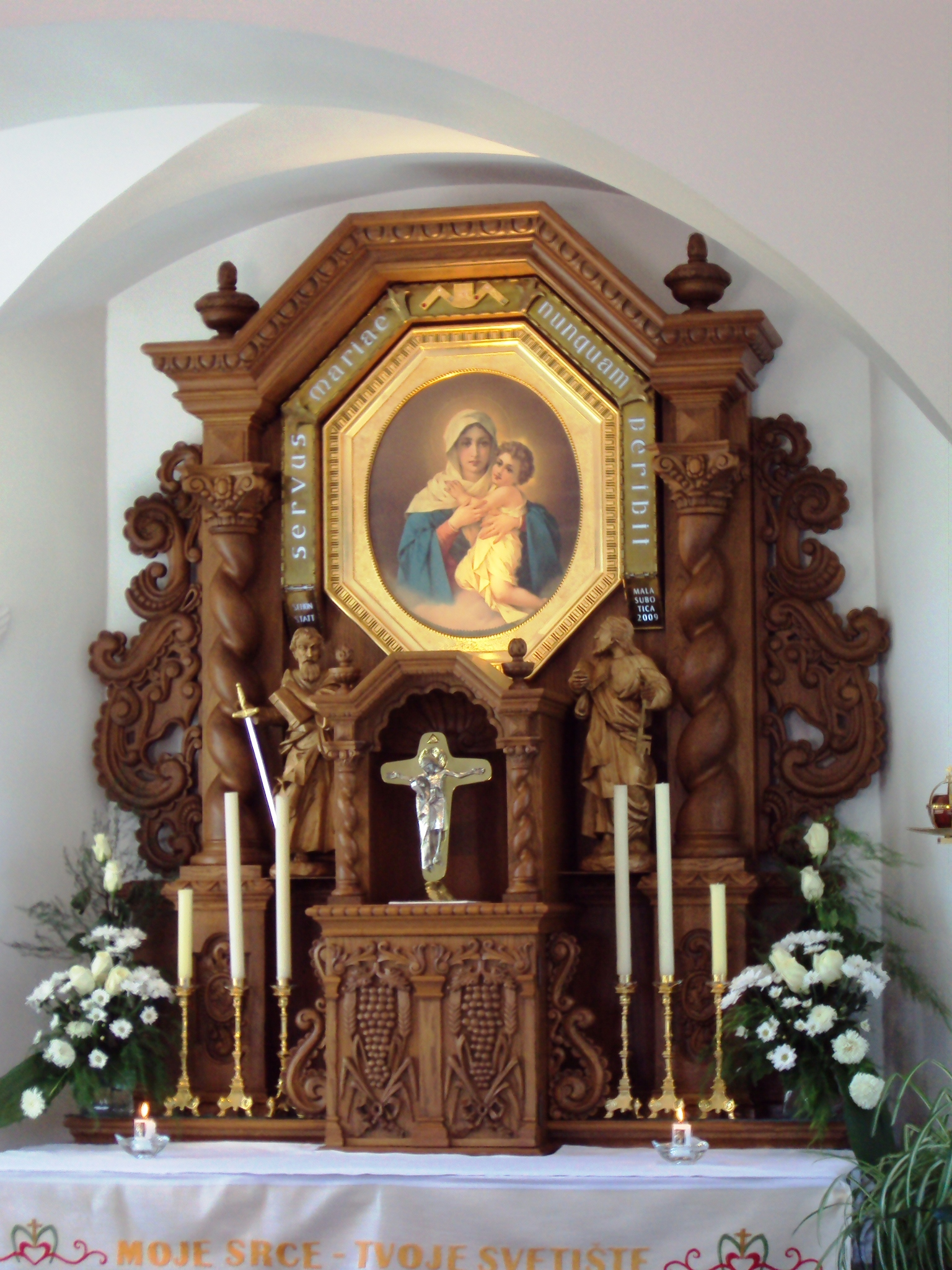 Altar in Schoenstatt shrine in Mala Subotica, Croatia